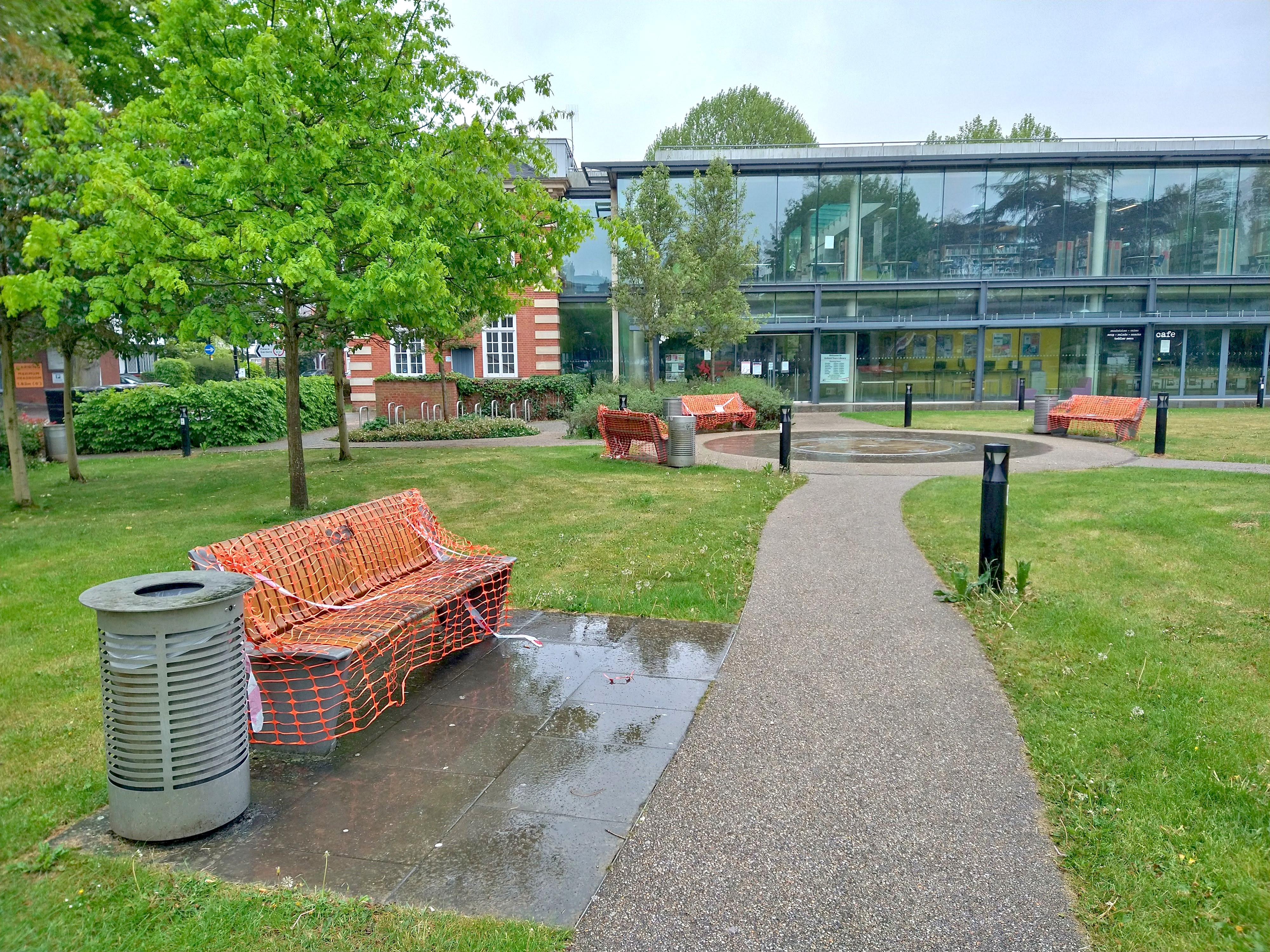 Park benches covered in netting during the 2020 Covid-19 pandemic in Enfield, London